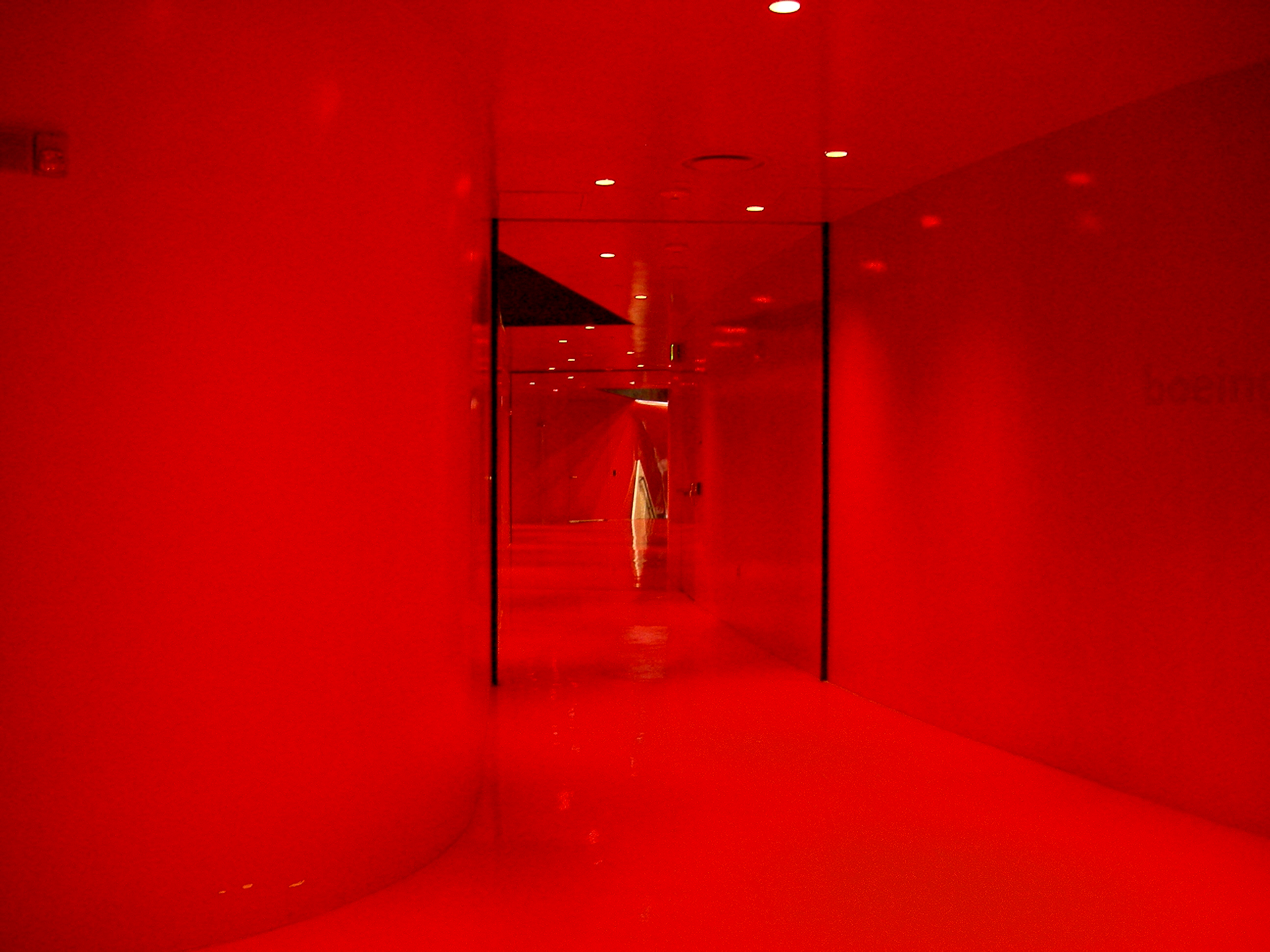 Fourth floor, Central Public Library, Seattle, Washington. This floor contains conference rooms, classrooms, and at least one office. The bright red hallways contrast to the blues and metallic tones that dominate most of the rest of the library.